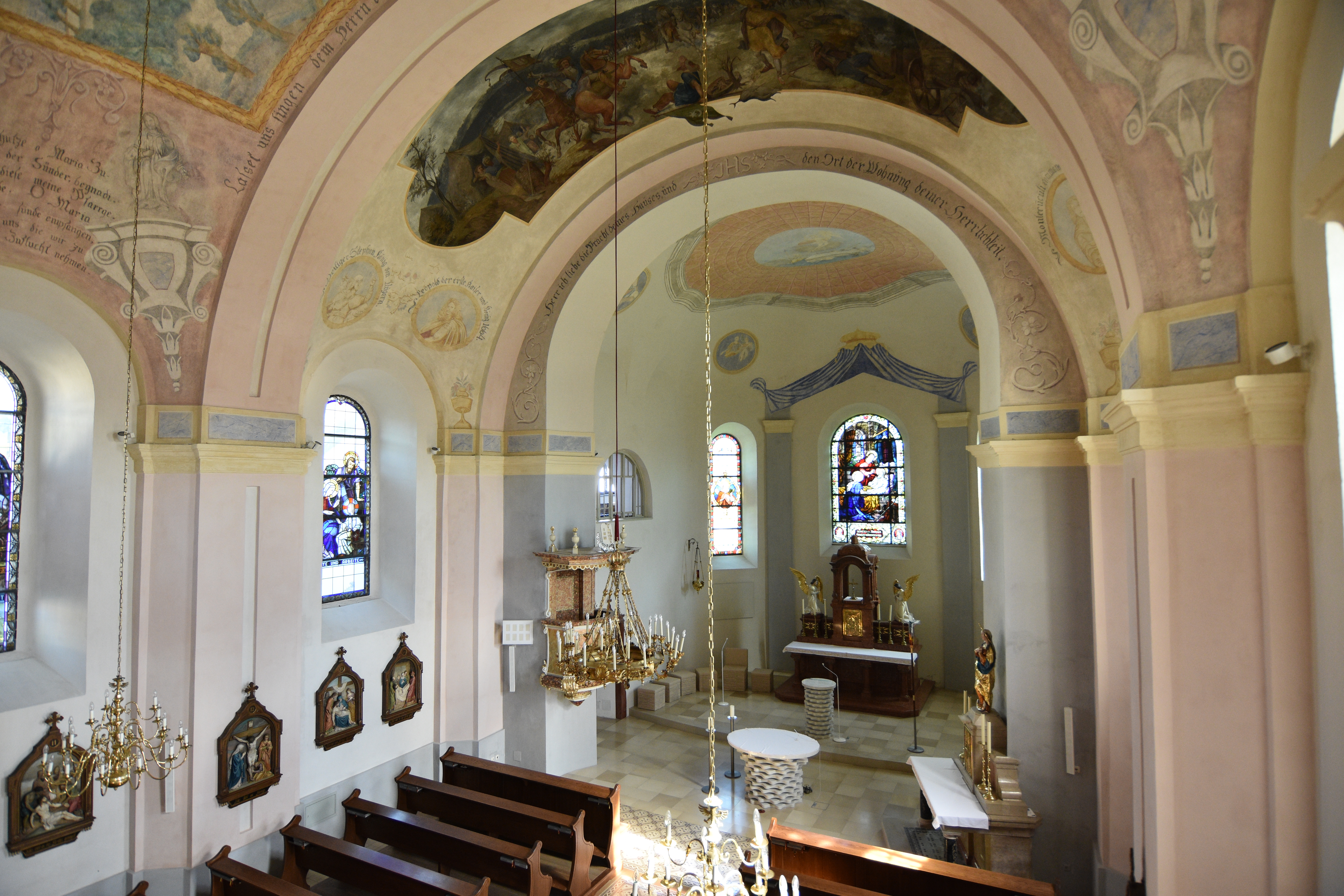 Saint Joseph Church (Mogersdorf) - Interior